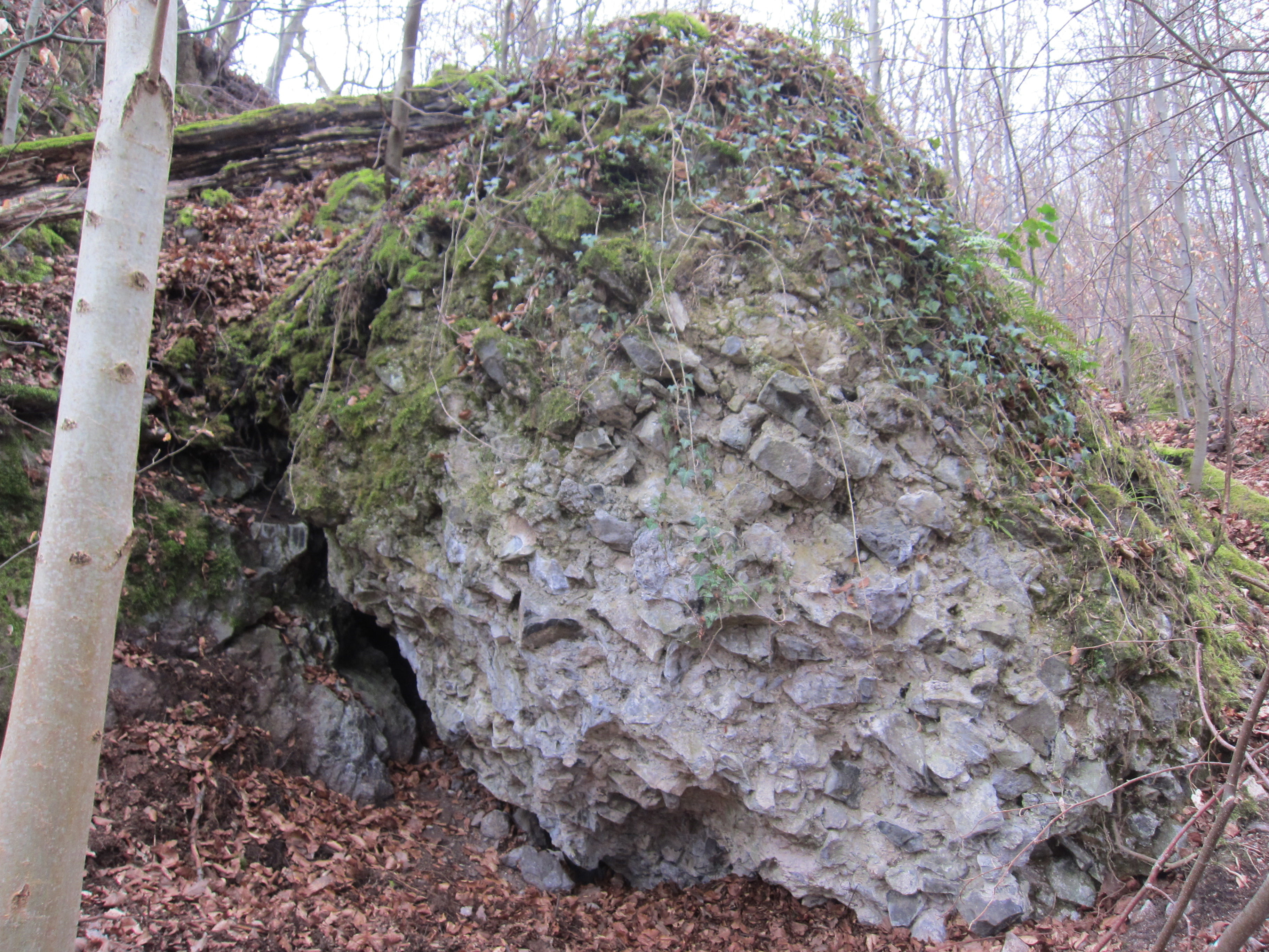 Koliburg, massive chunk of a wall (viewed from northeast)